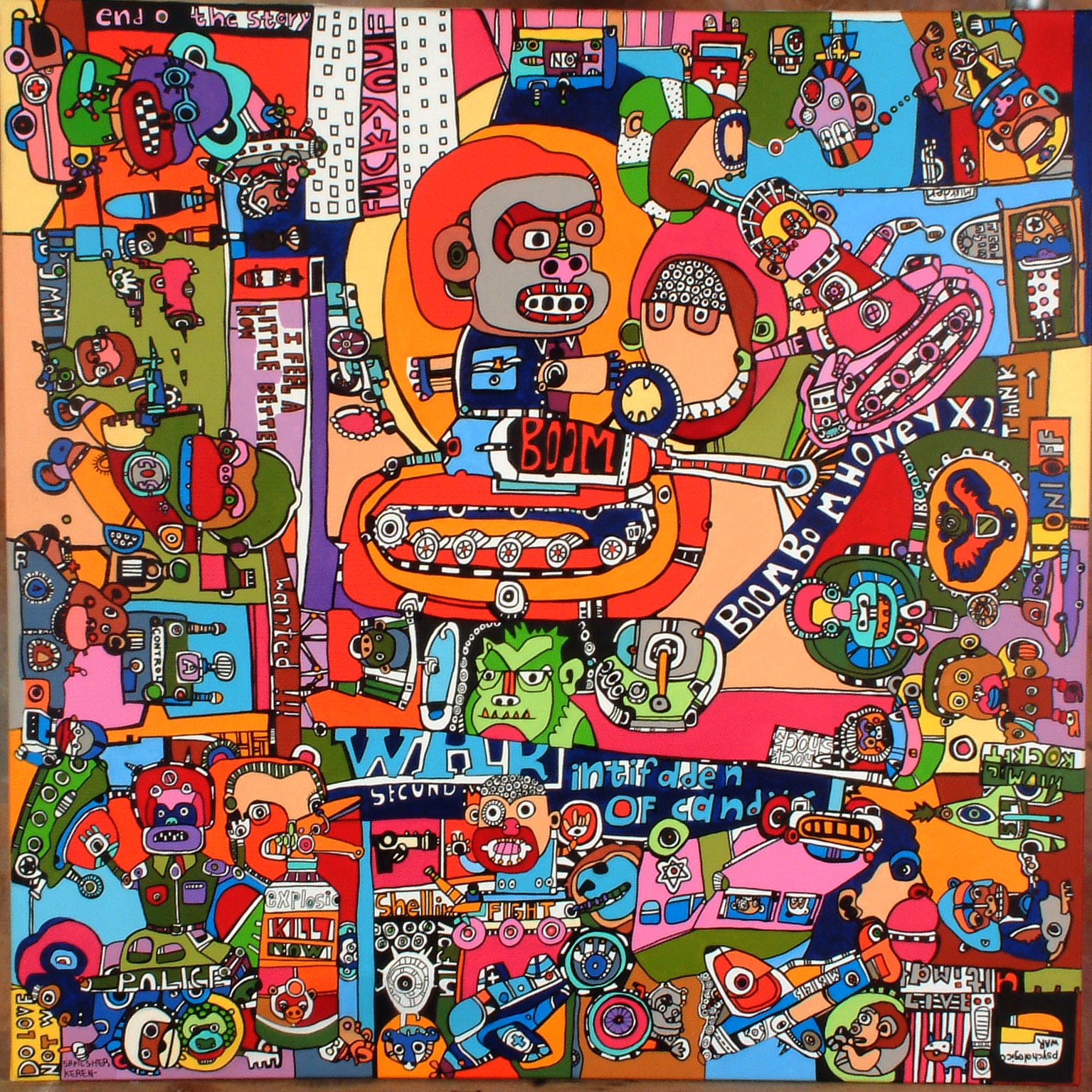 The painting "An Intifada of Candy" by Keren Shpilsher, 2003, Acrylic on Canvas